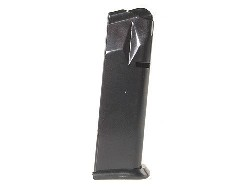 A 14 round P14-45 mag.